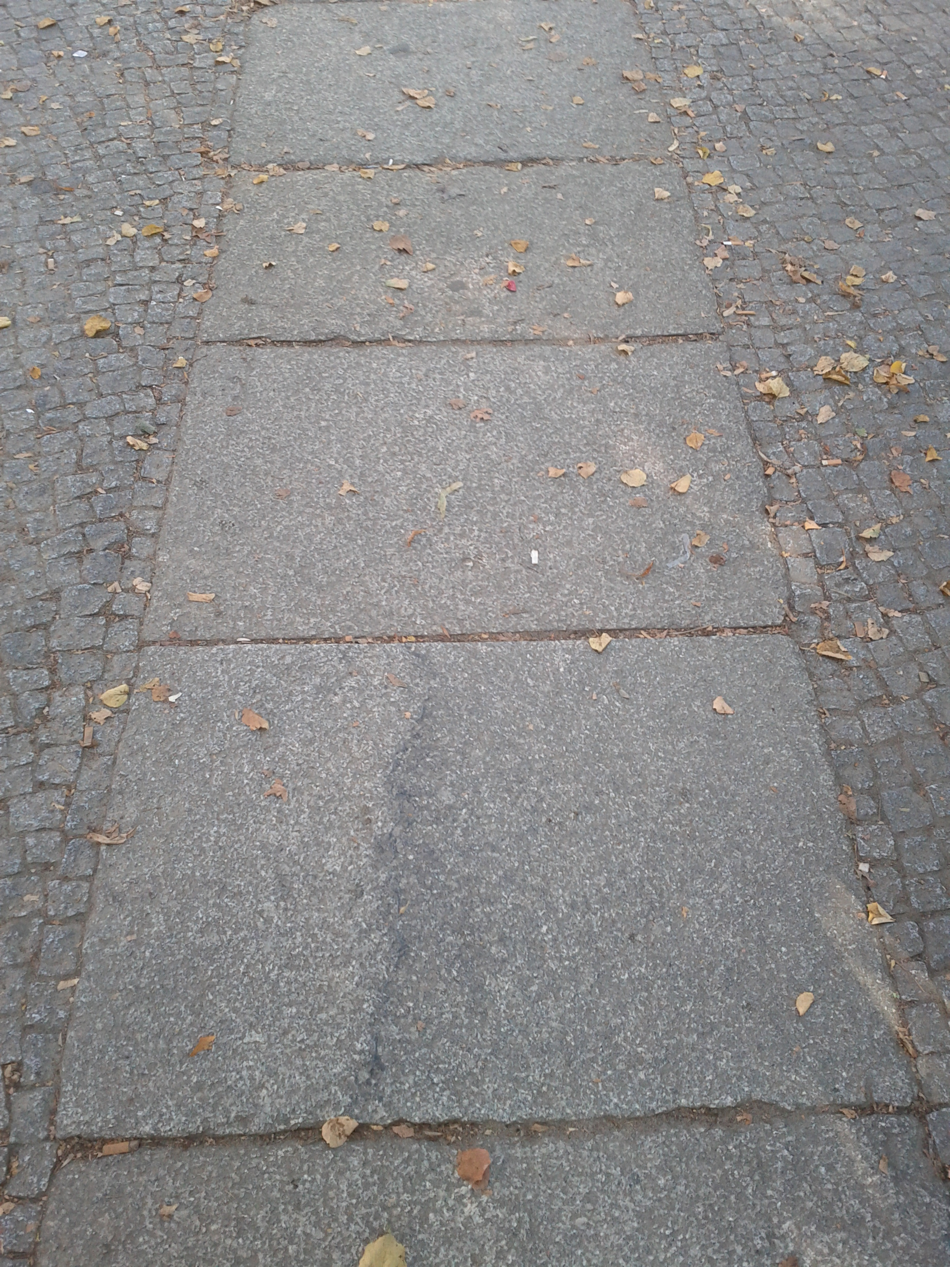 Pavement slabs of granite, 1 m wide, with mosaic stone pavement left and right; located in Bergmannstraße in Berlin-Kreuzberg, Germany. Typical traditional pavement material in Berlin.